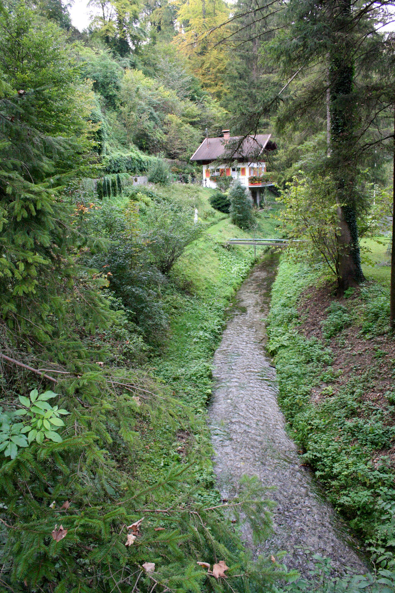 Wenzbach, a stream in Munich, tributary of the Floßkanal